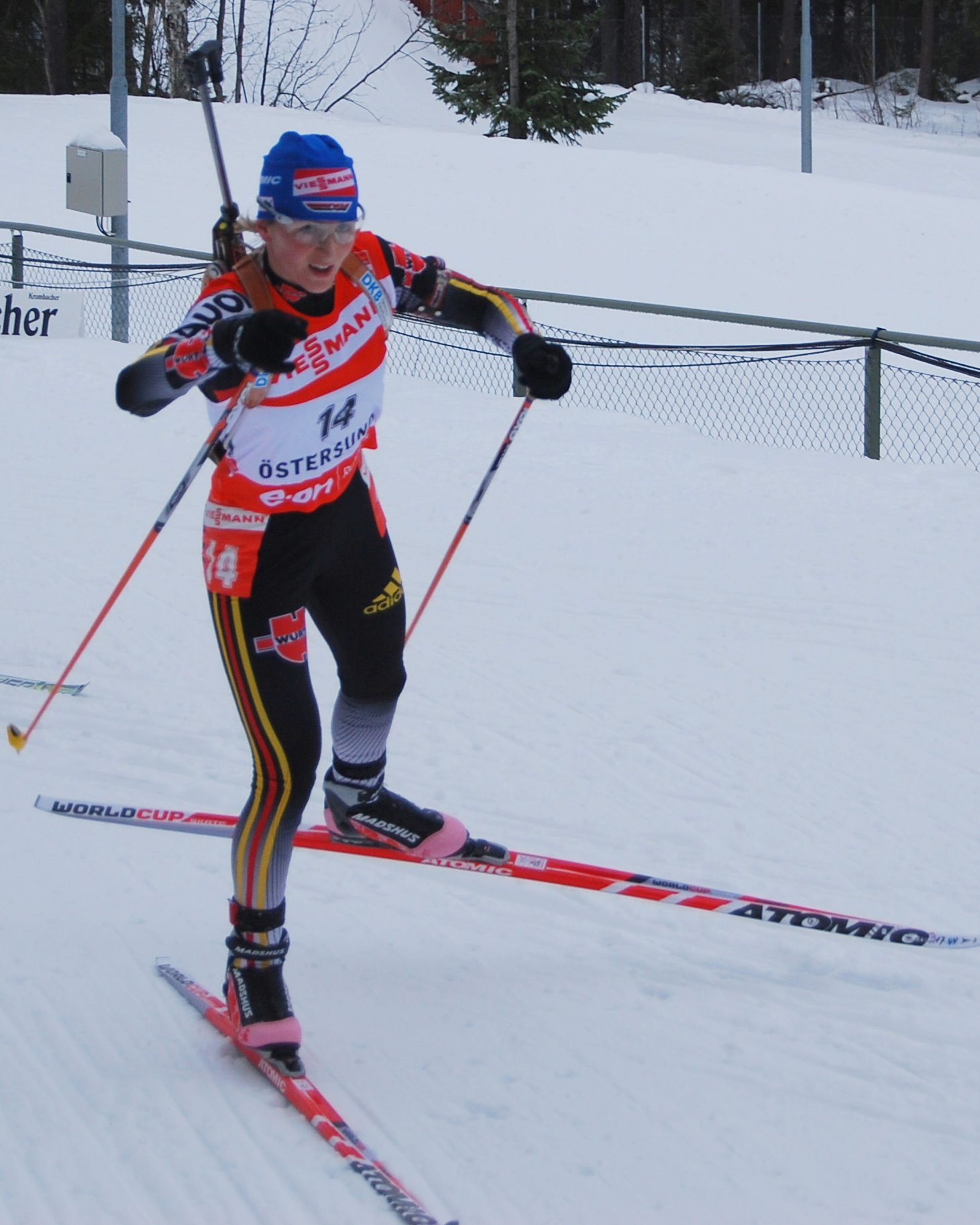 German biathlete Martina Glagow during the World Championships in Östersund 2008.